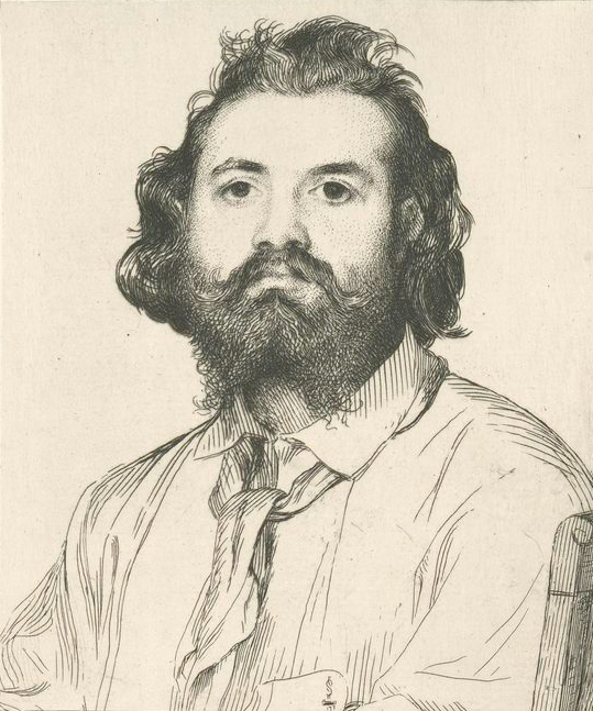 French sculptor, painter and art critic Zacharie Astruc (1835-1907) by Félix Bracquemond (1833-1914).